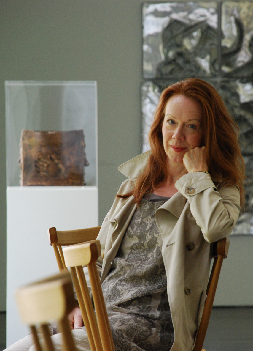 Gabriele Hasler